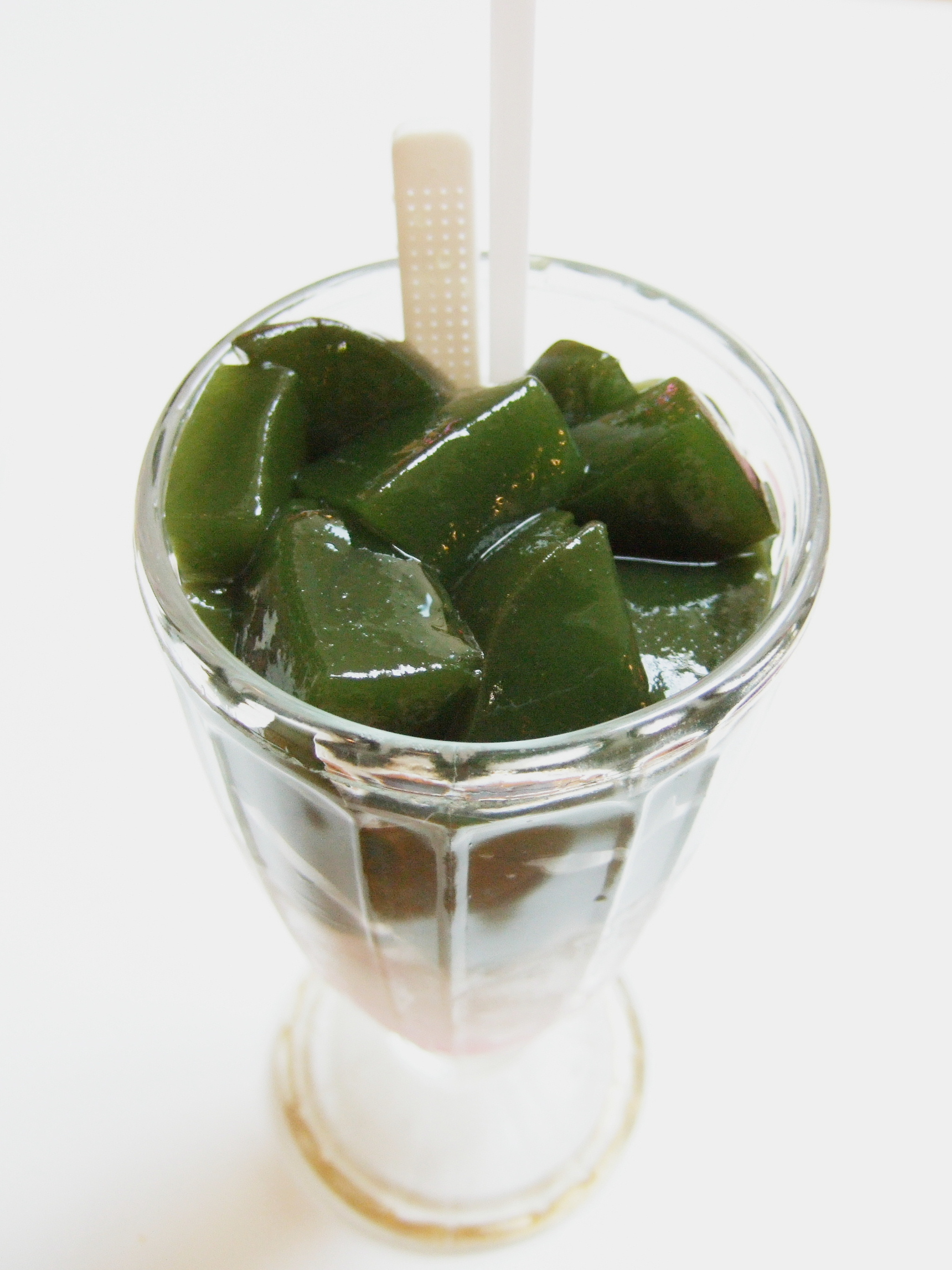 Green grass jelly drink, picture edited with